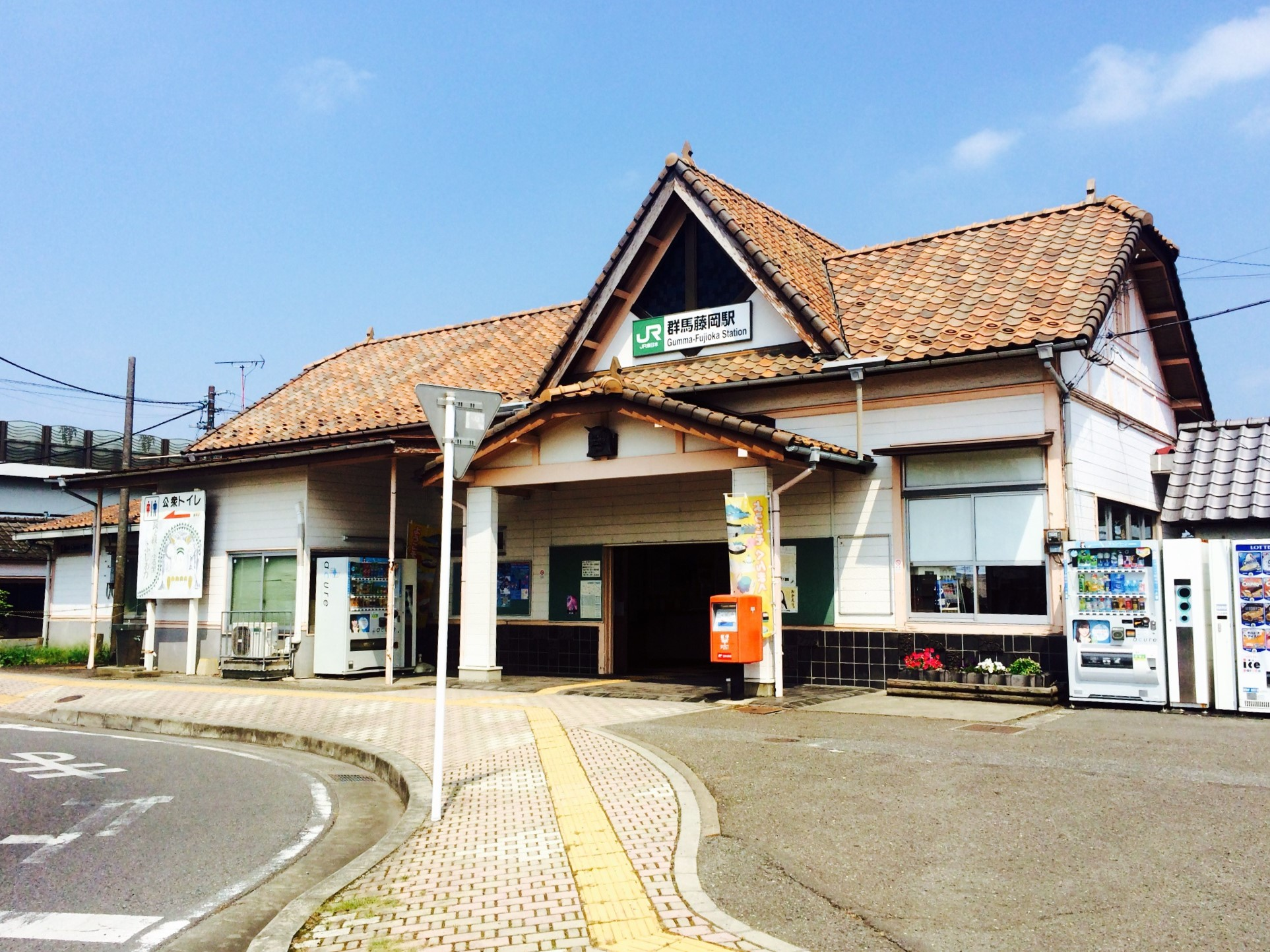 Gumma-Fujioka Station on the Hachiko Line